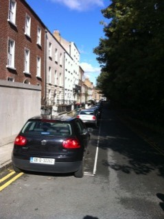 View of the west side of Mount Pleasant Square, Dublin.